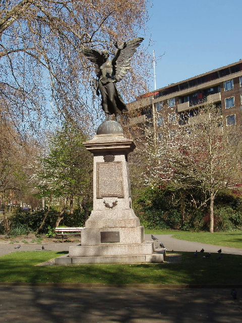 Finsbury Rifles war memorial This memorial designed by Thomas Rudge is in gardens at the junction of Rosebery Avenue and Gloucester way.